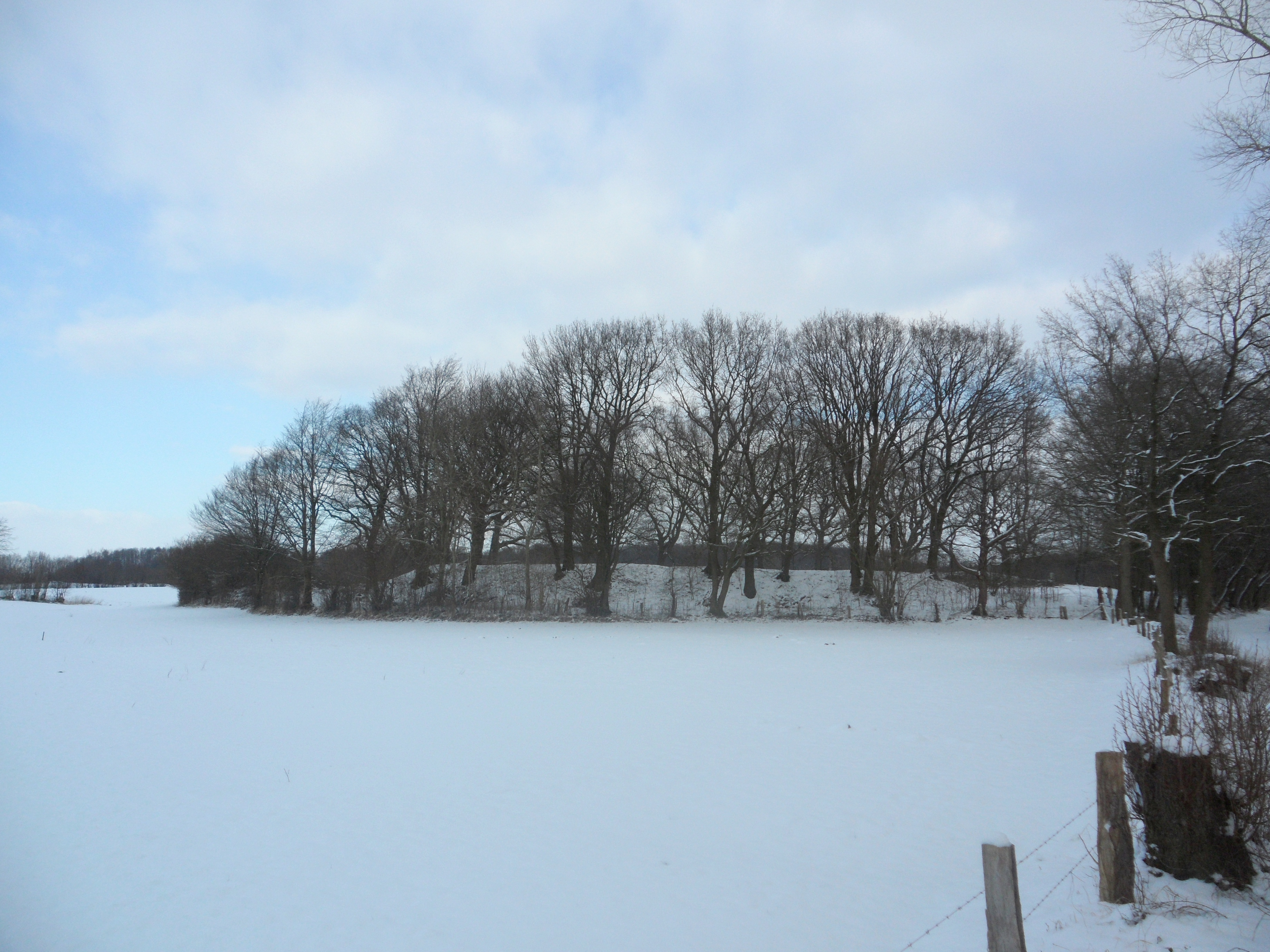 Wall of the Margarethenschanze view from south